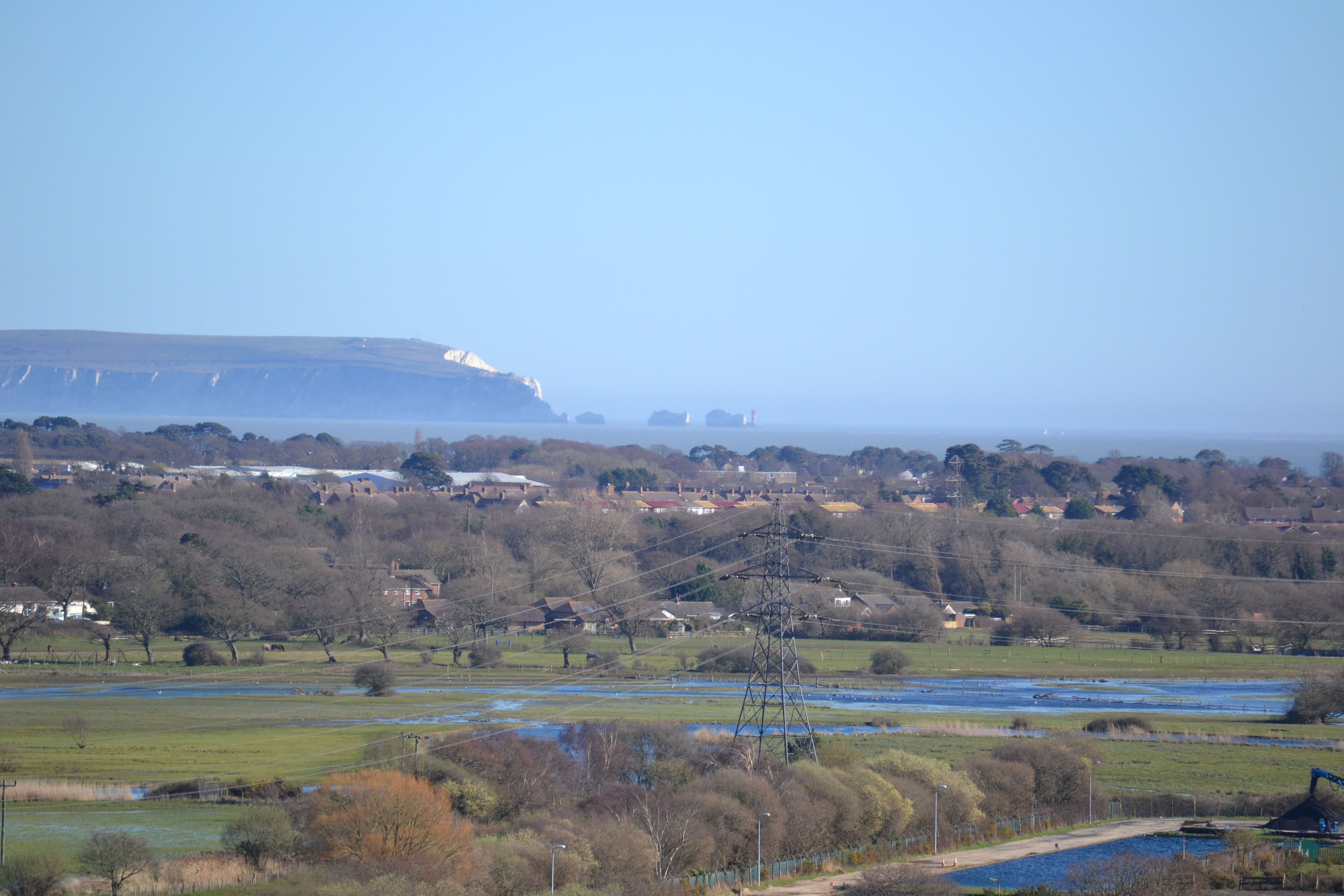 View of the Isle of Wight from St Catherine's Hill in Dorset.